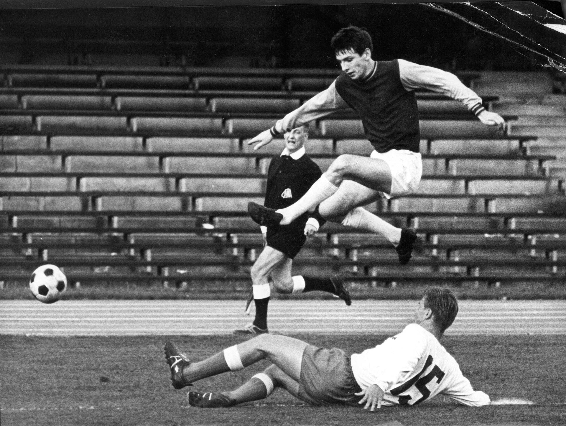 Photograph of the British football player Martin Peters jumping over the Finn Markku Peltoniemi in a game at Helsinki Olympic Stadium.